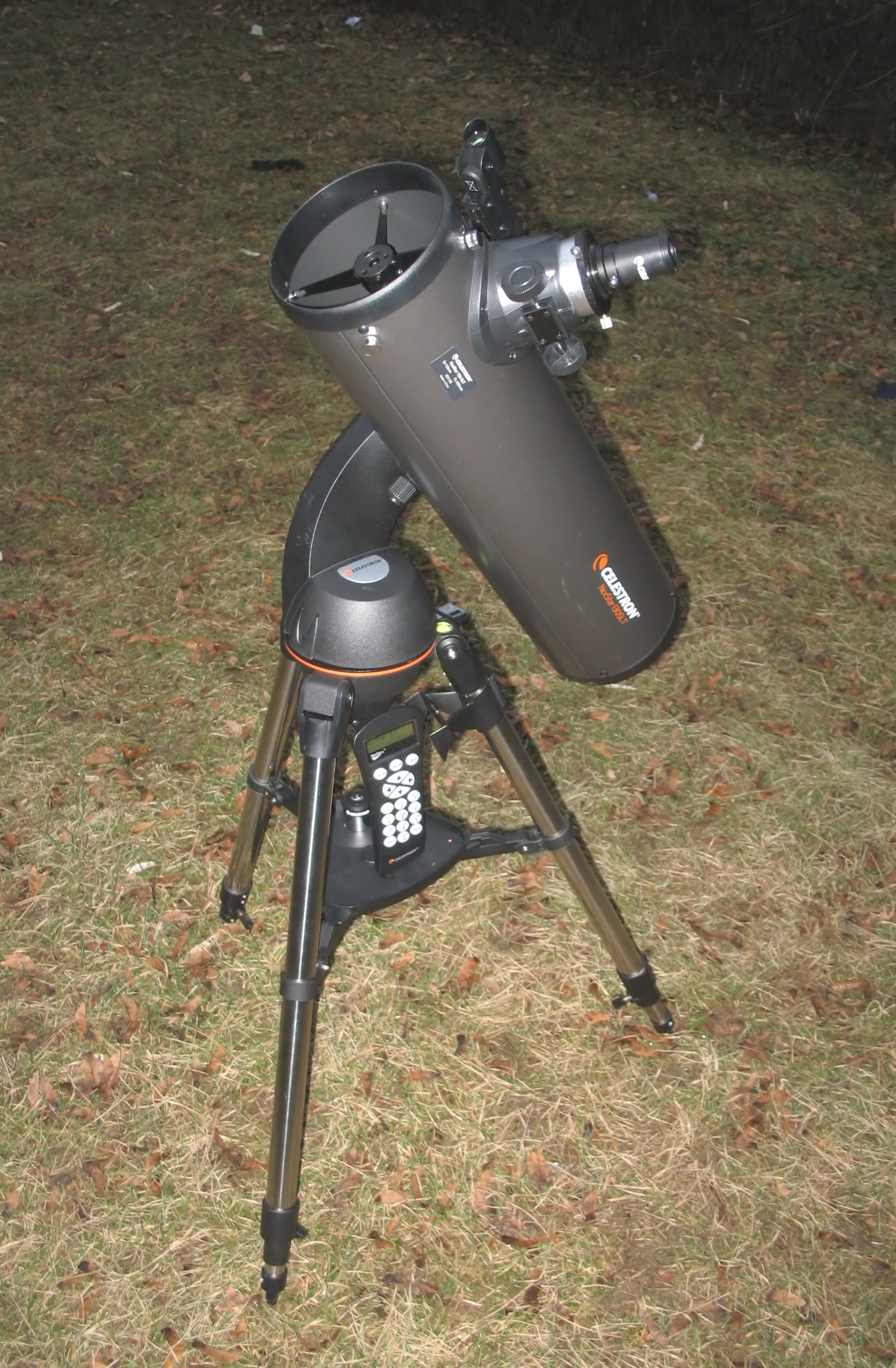 A GoTo telescope; note the keypad that is the telescope's hand control. Batteries are stored in the circular compartment just above the tripod's legs. This telescope is a Celestron Nexstar 130.